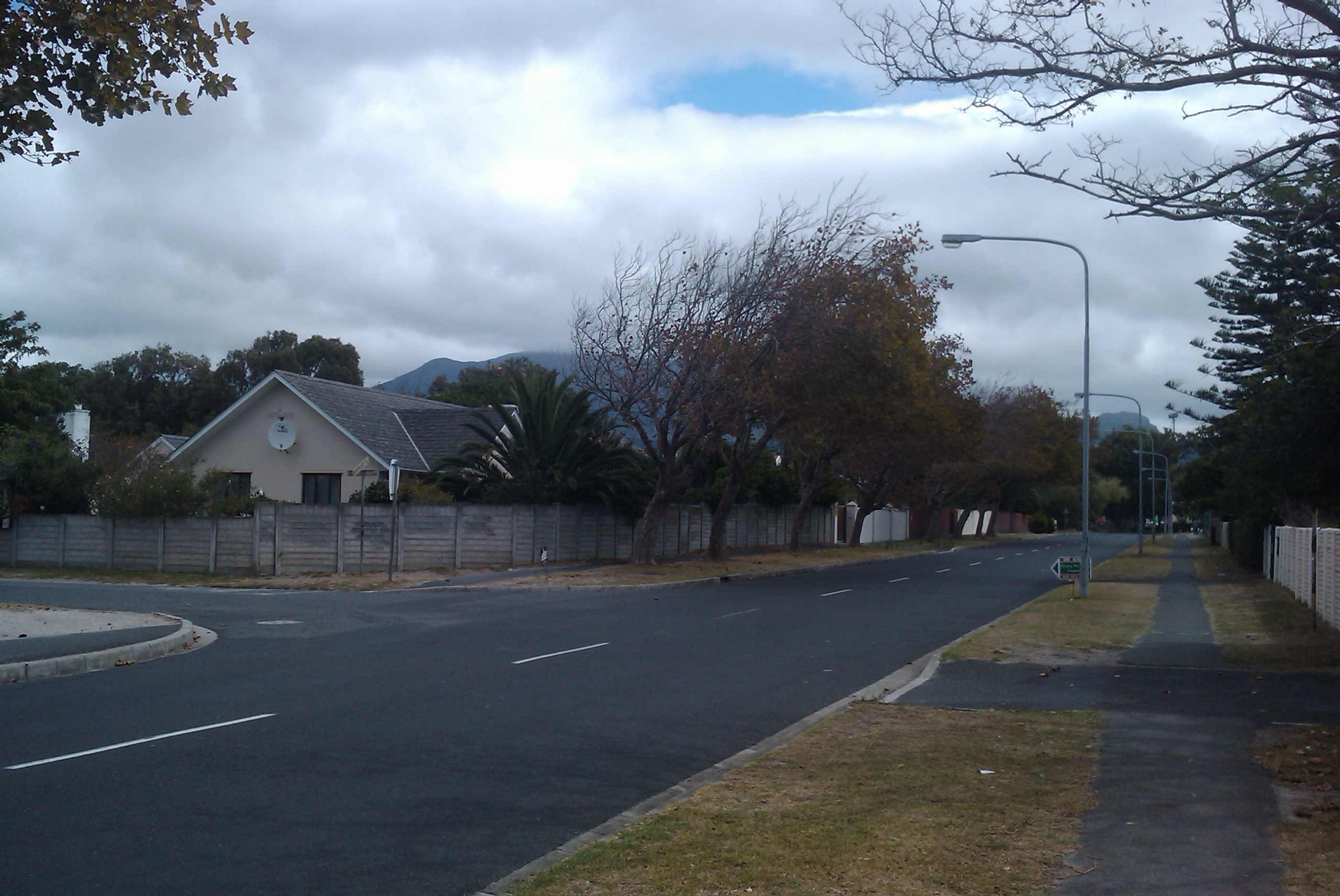 Facing west